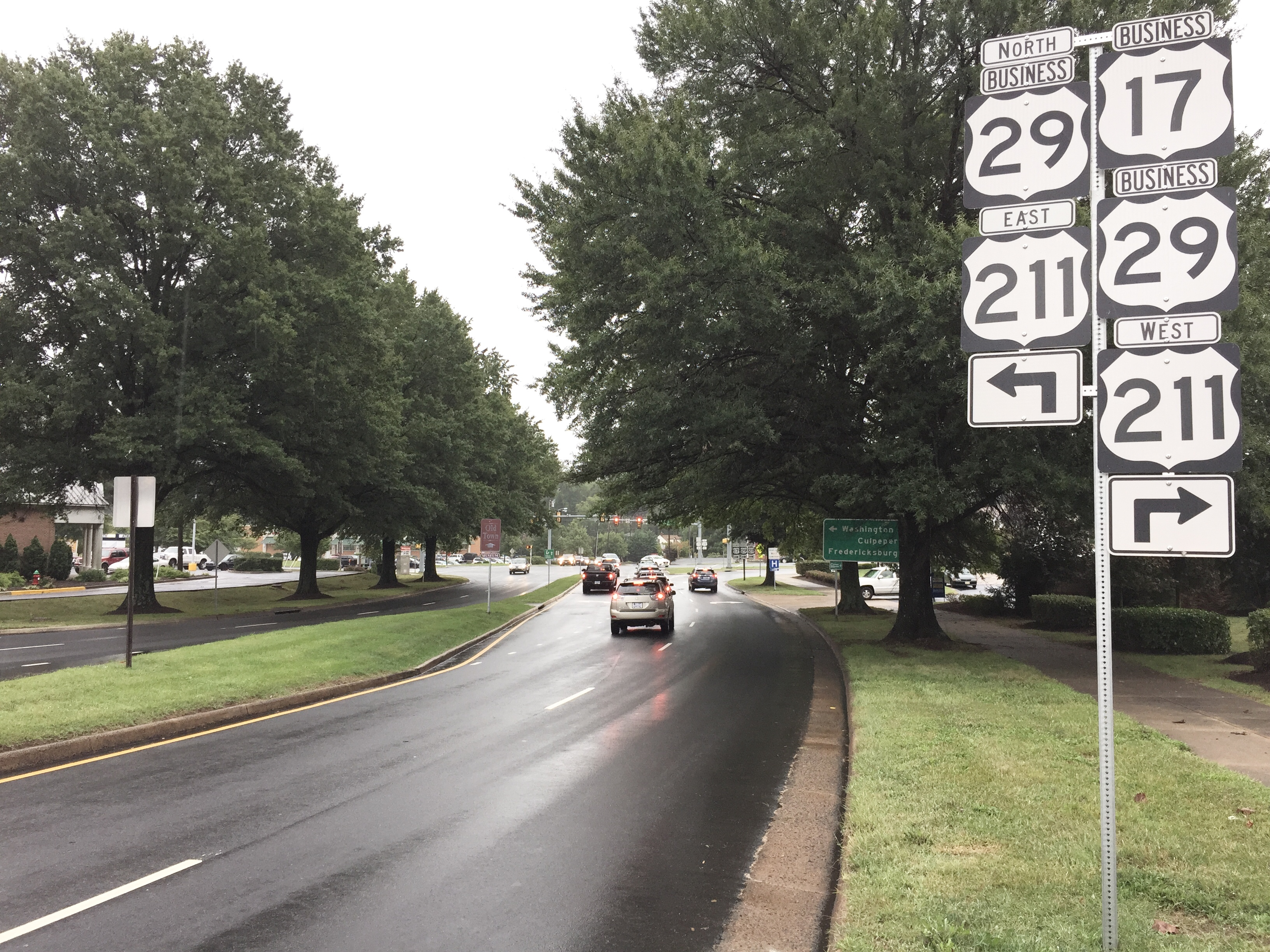 View south along U.S. Route 17 Business (Broadview Avenue) at Roebling Street in Warrenton, Fauquier County, Virginia